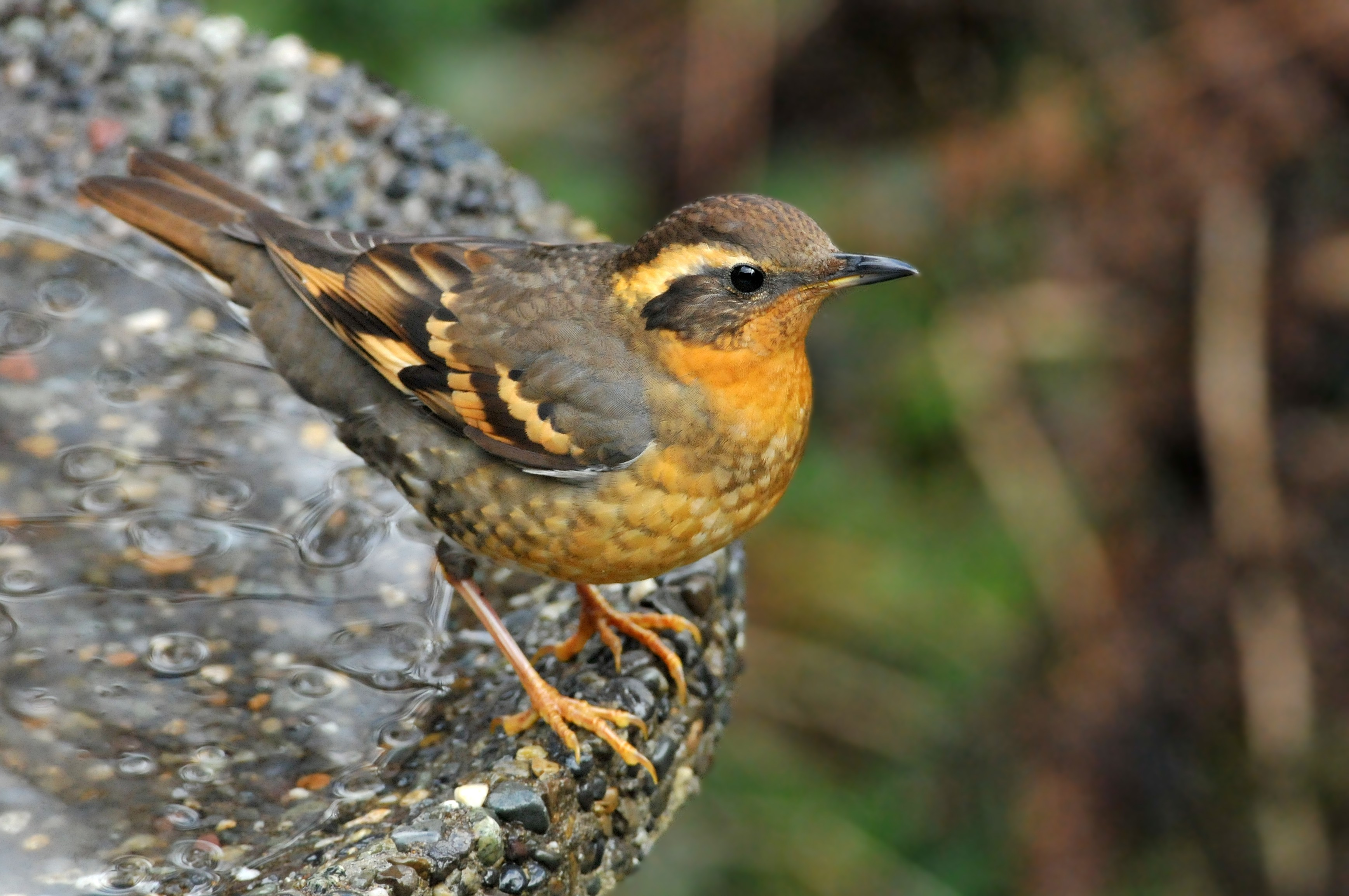 A female Varied Thrush in Washington, USA.